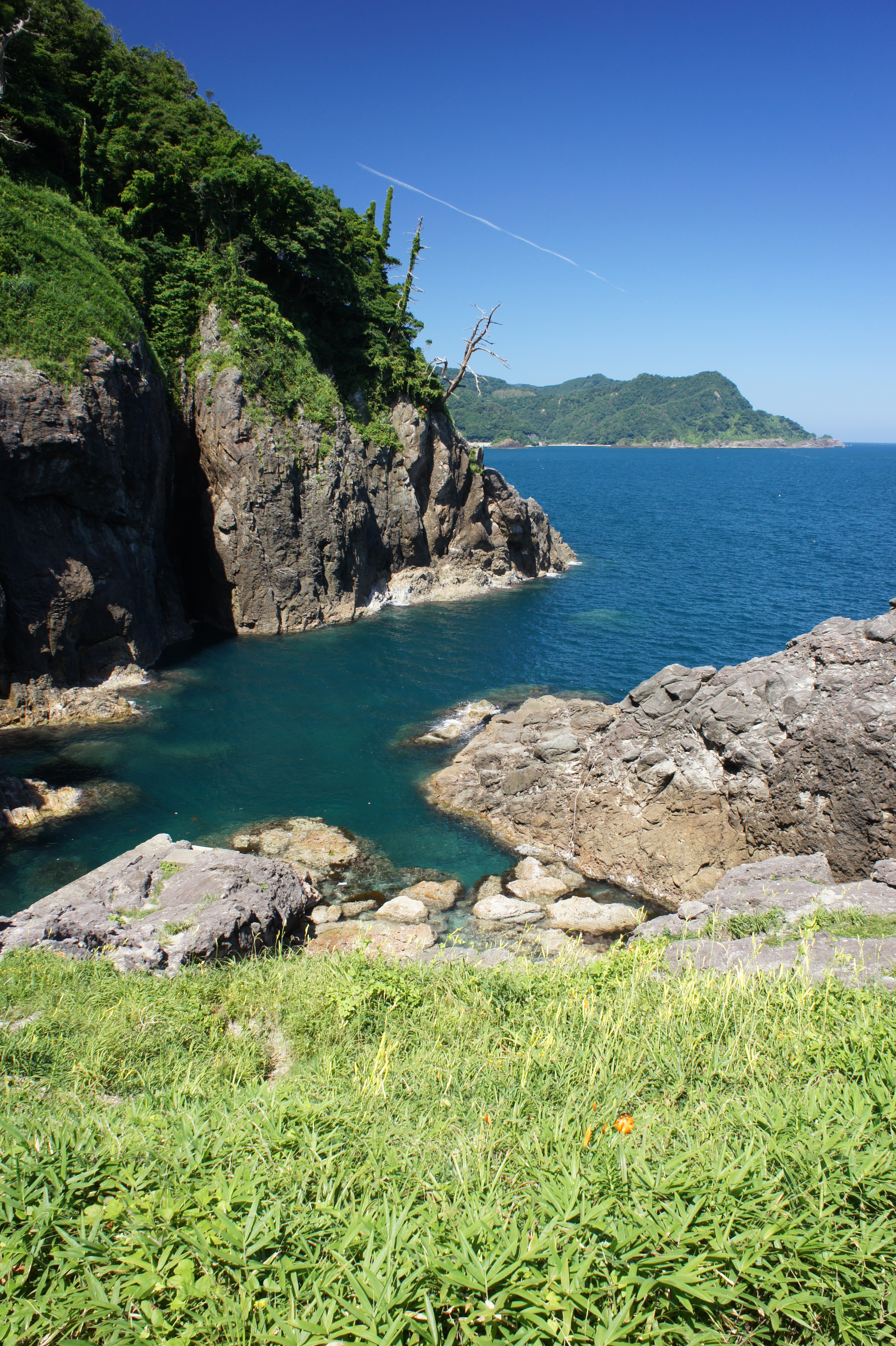 Kasumi Coast view from Okami Park in Kami, Hyogo prefecture, Japan It belongs to a Sanin Kaigan National Park. It is a part of "San'in Coast Geopark" which joins in Global Geoparks Network.